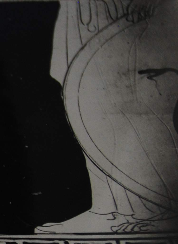 Attic red-figure Amphora of painter Hermonax; Warriors farewell: Sister giving his Brother the Weapons; here Detail: rest of the sketch; ca. 450 B.C., Martin von Wagner Museum Würzburg, Inventarnumber HA 117 (= L 504)